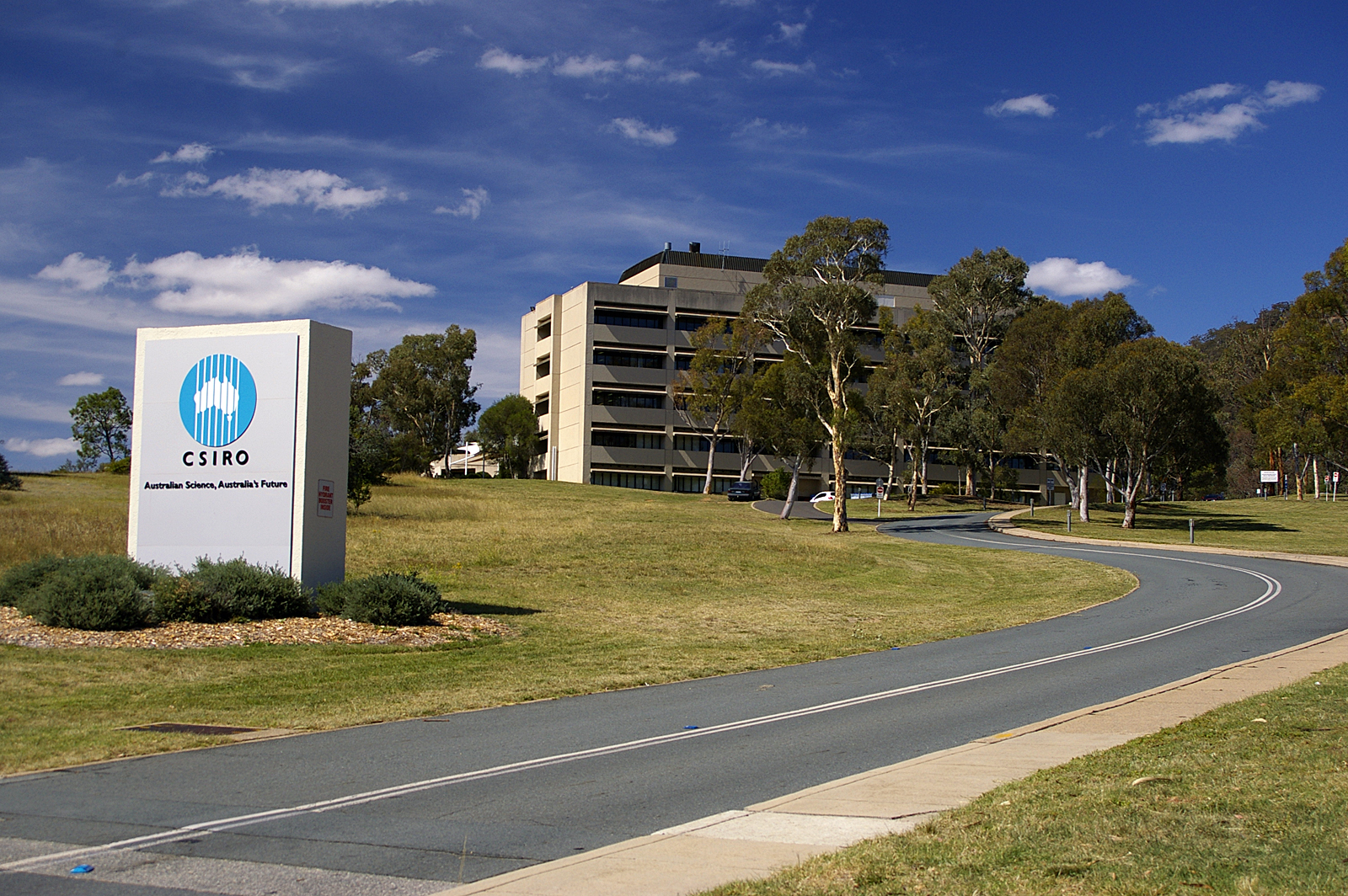 Commonwealth Scientific and Industrial Research Organisation (CSIRO) Corporate Headquarters in the Canberra suburb of Campbell, Australian Capital Territory.